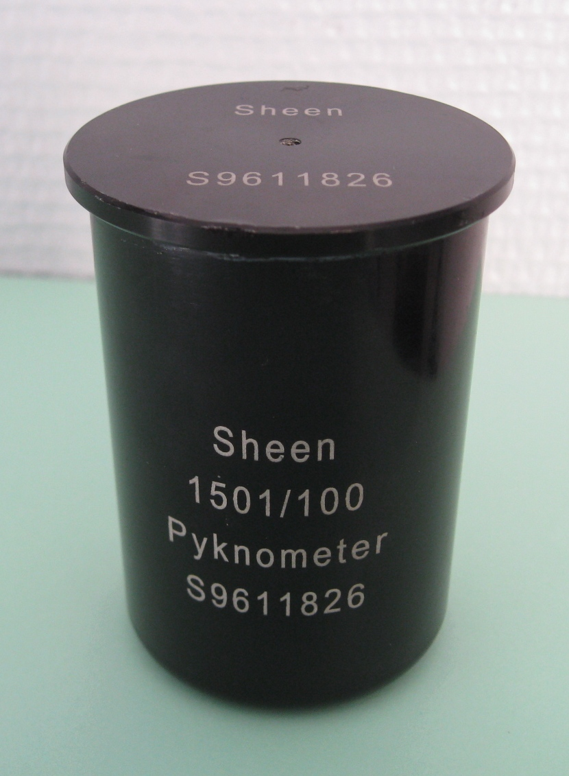 Pycnometer made of alloy, capacity: 100 ml, with a cover fitted with an overflow outlet, to measure the density of a solid, past or liquid.